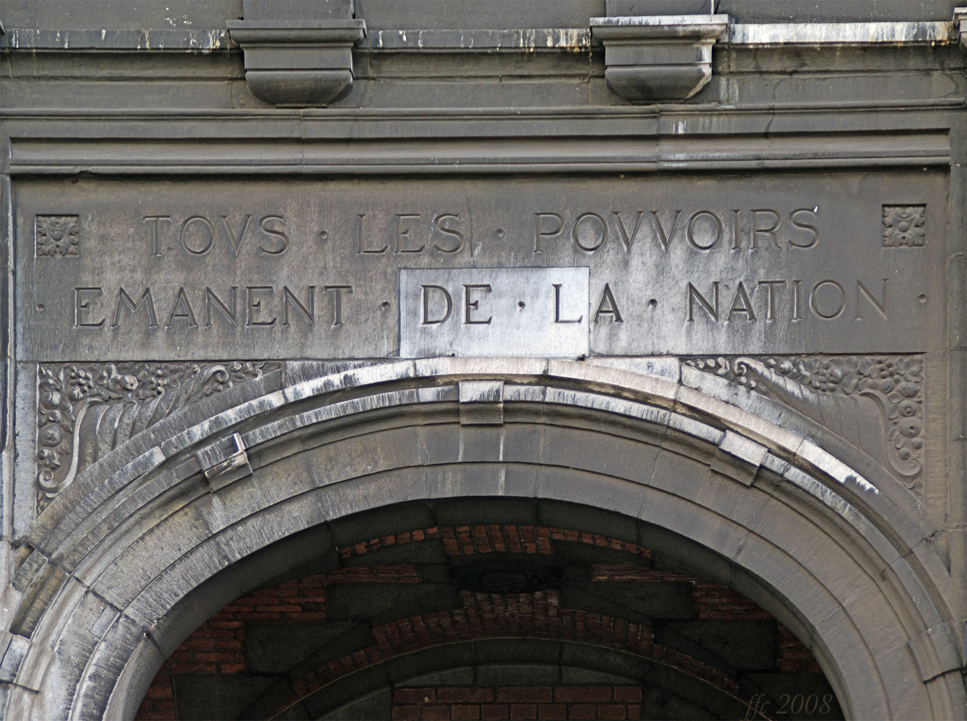 Chênée (Belgium): Former Town Hall - detail - art 33 § 1 of the Belgian constitution